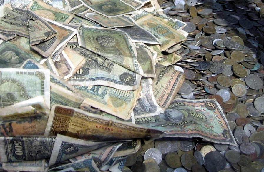 A pile of antiquated greek money in a shop.